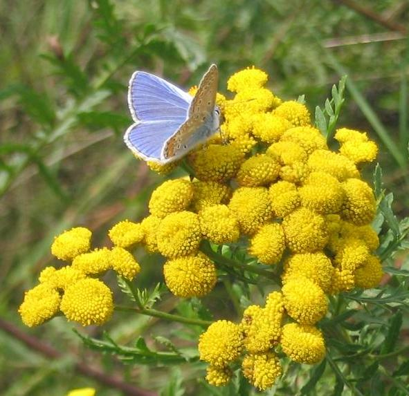 Common Blue (Polyommatus icarus) on Tansy (Tanacetum vulgare) in the natural preserve Planetal nearby Rädigke. The village Rädigke is a part of the municipality Rabenstein/Fläming in the district Potsdam Mittelmark, state Brandenburg, Germany. Rädigke appertains to the natural preserve Naturpark Hoher Fläming.